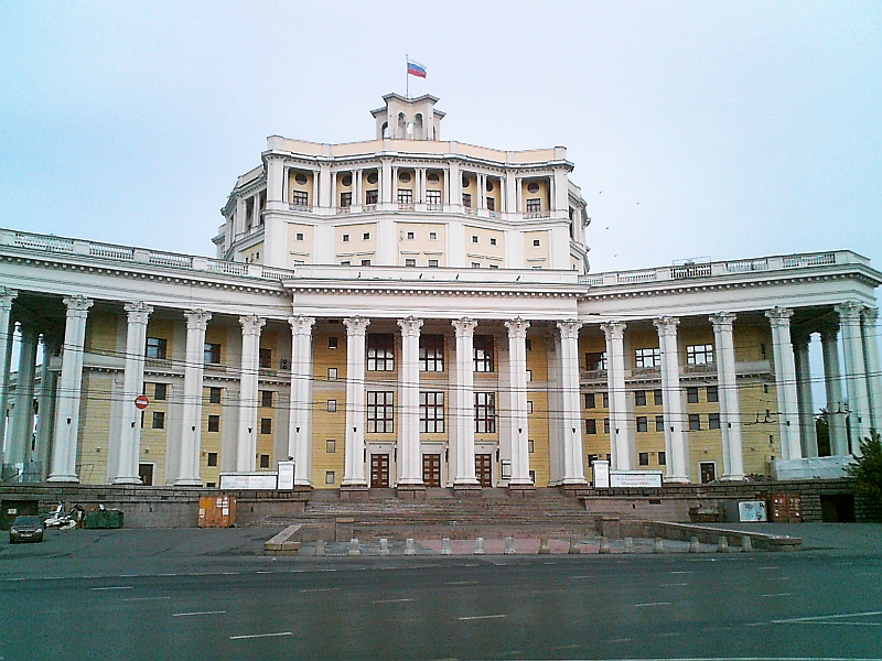 The Russian Army's Theatre in Moscow, Russia